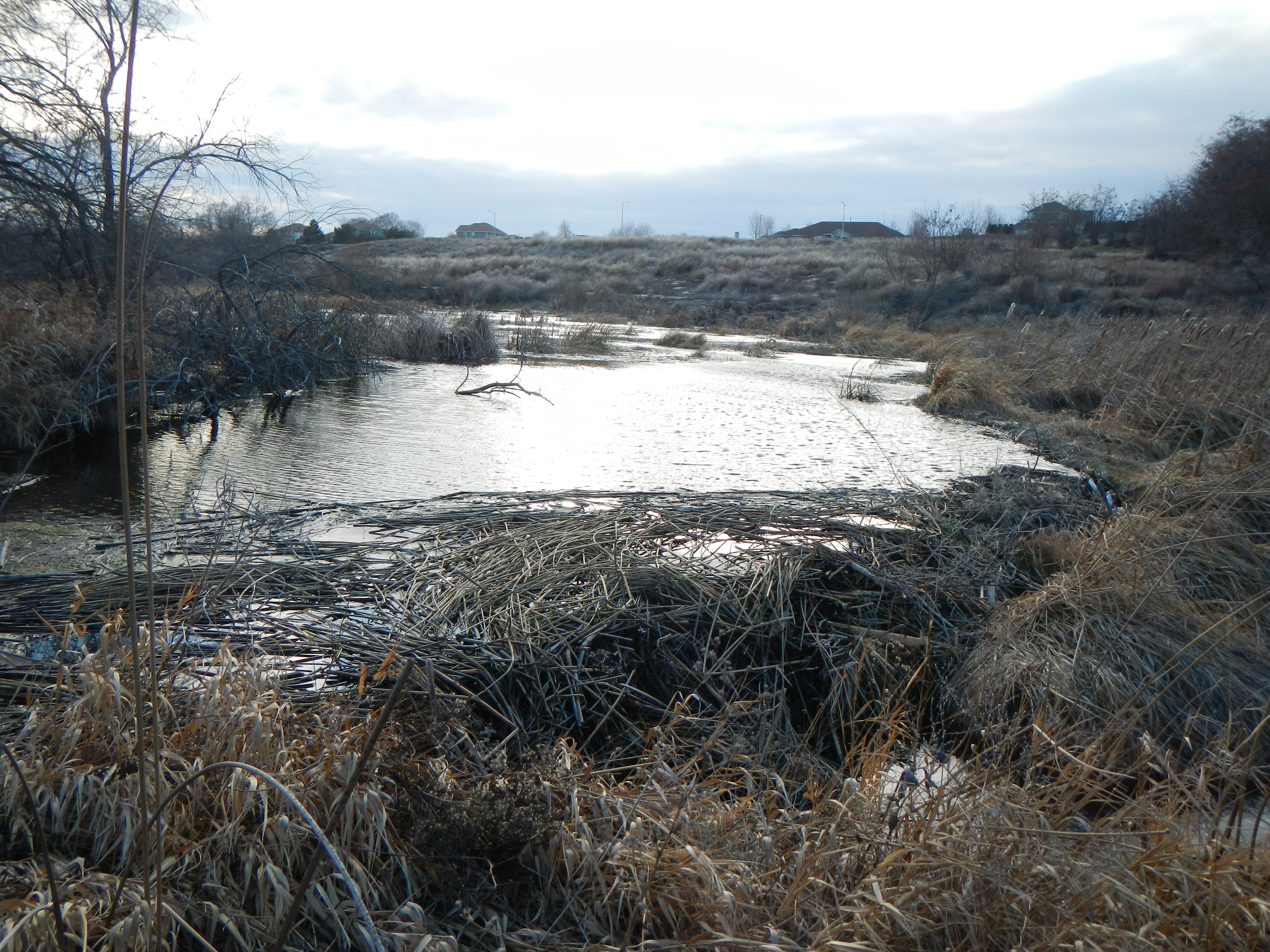 A beaver dam on the West Fork of Amon Creek in Richland, Washington